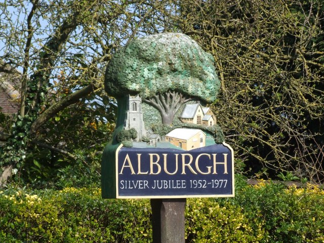 Alburgh Village Sign